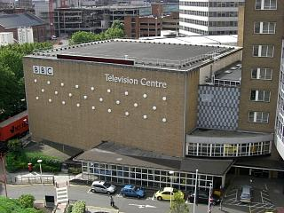 BBC TV Centre Studio One, Wood Lane, W12 - taken by me Zir 21:23, 19 July 2007 (UTC) Please credit © if used outside of Wikipedia